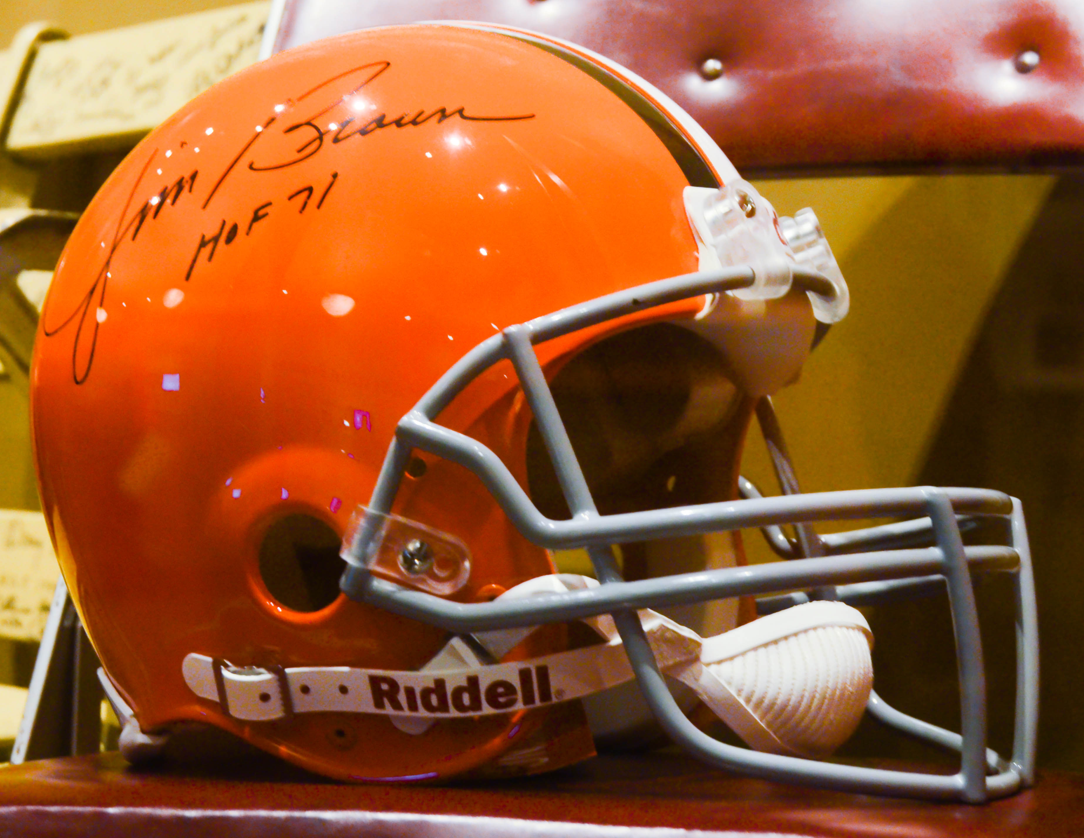 modern Cleveland Browns helmet signed by Jim Brown